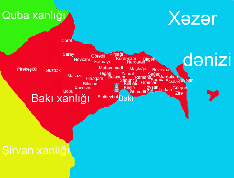 Baku khanate. Territories of Northern and Southern Khanates (and Sultanates) of Azerbaijan in 18th-19th centuries Based on the original sources: 1."Frontier nomads of Iran: a political and social history of the Shahsevan" Author: Richard Tapper Cambridge University Press, 1997 ISBN 0 521 58336 5 hardback 2."Russian Azerbaijan, 1905-1920: The shaping of national identity in a muslim community" Author: Tadeusz Swietochowski Cambridge University Press, 1985 ISBN 0 521 26310 7 hardback ISBN 0 521 52245 5 paperback 3."Russia and Iran, 1780-1828" Author: Muriel Atkin University of Minnesota Press, 1980 ISBN 0 8166 0924 1